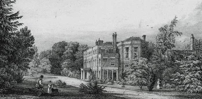 Inscribed: “Manydown, the seat of the Revd Lovelace Bigg Wither, to whom this view is respectfully inscribed by his obedient humble servant, G. F. Prosser. Printed by C Hullmandel [1833].” Lithographic view of a three-storeyed country house in a park-like setting with trees. In the left foreground a gardener with a wheelbarrow talks to a young girl with a dog. A couple strolls among the trees at the right, beside the house.